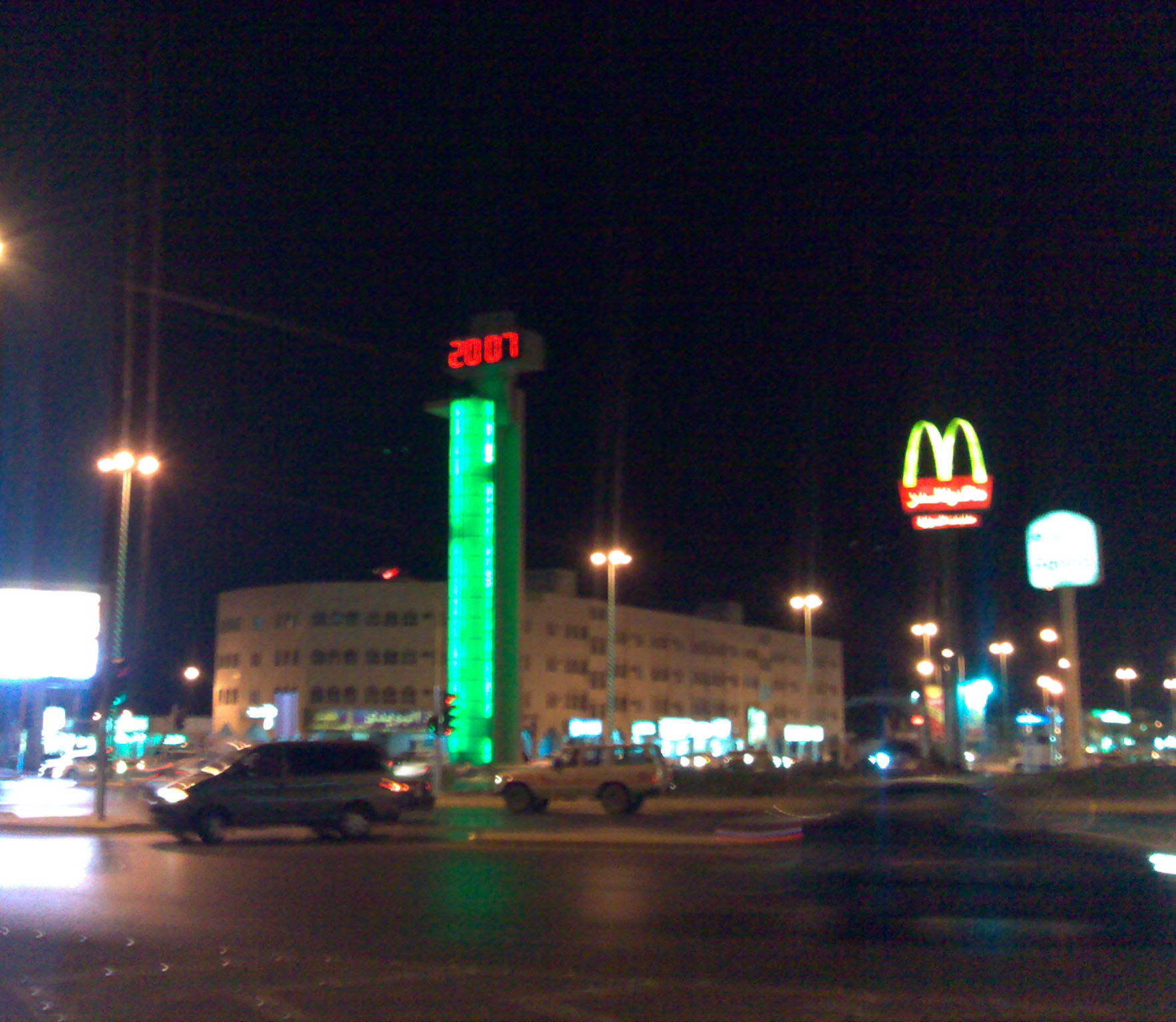 The clock square in Unaizah, Saudi Arabia.